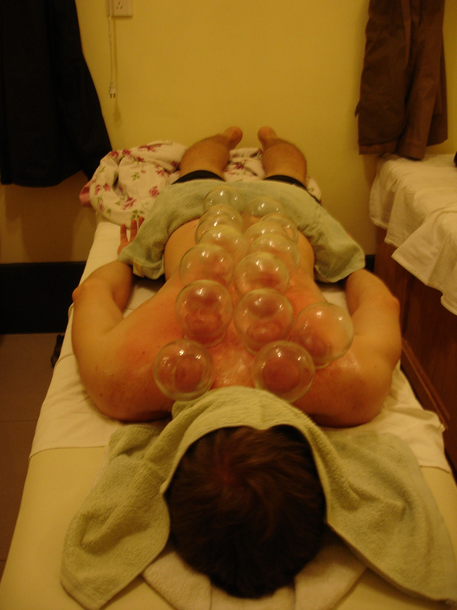 Fire Cupping 2008